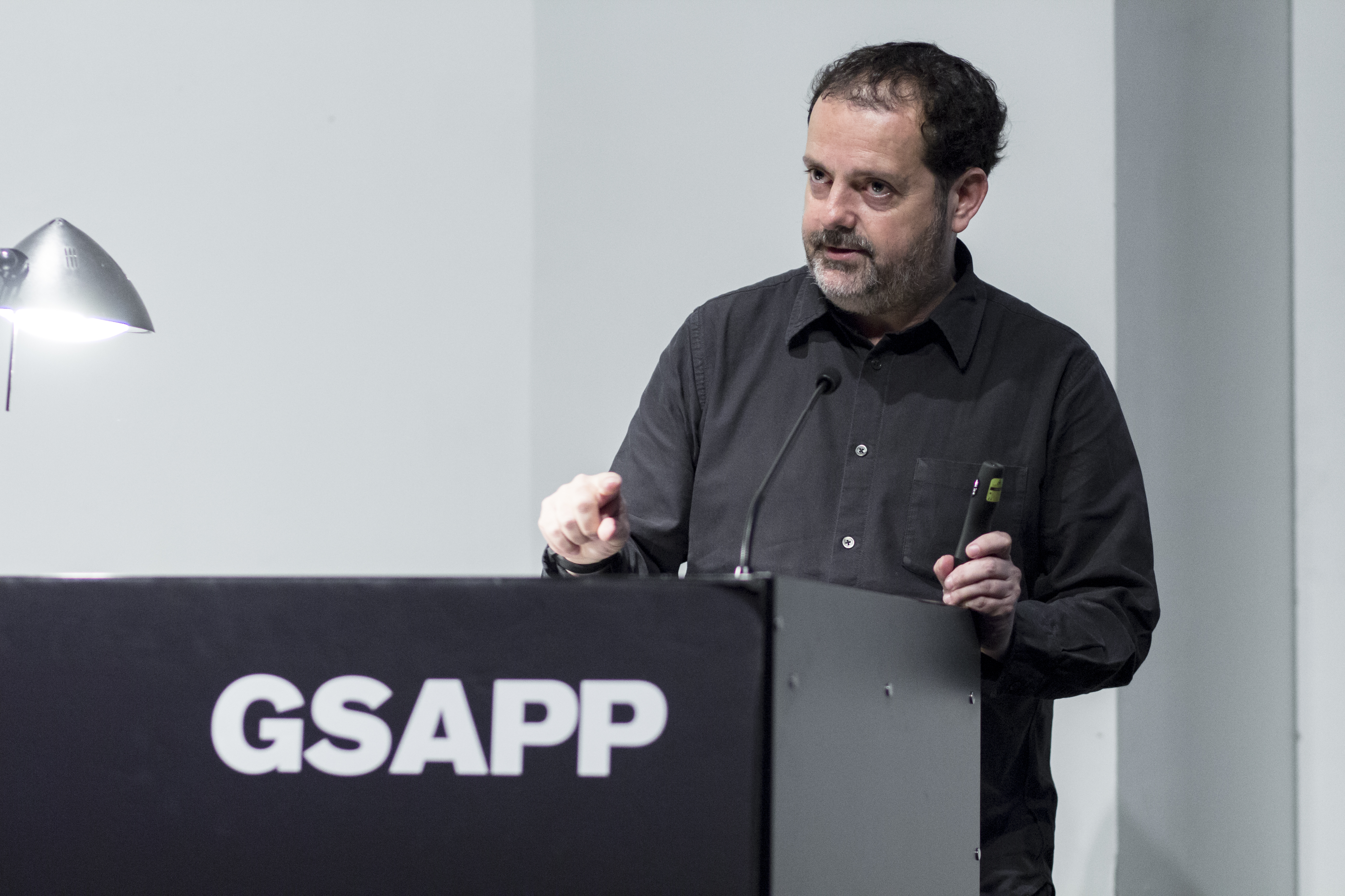 Mauricio Rocha Response by Barry Bergdoll and Luis Carranza Mexico-City based architect Mauricio Rocha presents the work of his firm Taller de Arquitectura-Mauricio Rocha, including the 14,000 sqm complex Center for the Blind and Visually Impaired that features courtyards, a store, a “tifloteca-sonoteca” (a sound and touch gallery), arts-and-crafts workshops, classrooms facing a garden, and a series of double-height volumes that house a library, gymnasium-auditorium, and swimming pool. In Oaxaca, the firm produced the Oaxaca School of Plastic Art, another complex that features building made of stone and rammed earth. This lecture is held on the occasion of Latin America in Construction: Architecture 1955–1980, "a complex overview of the positions, debates, and architectural creativity from Mexico and Cuba to the Southern Cone between 1955 and the early 1980s" that highlights architectural drawings, architectural models, vintage photographs, and film clips alongside newly commissioned models and photographs. Curator Barry Bergdoll and Visiting Professor Luis Carranza offer responses to the work. Latin America in Construction: Architecture 1955–1980 is on display March 29–July 19, 2015. Photographs by Ronald Yeung, Columbia GSAPP.